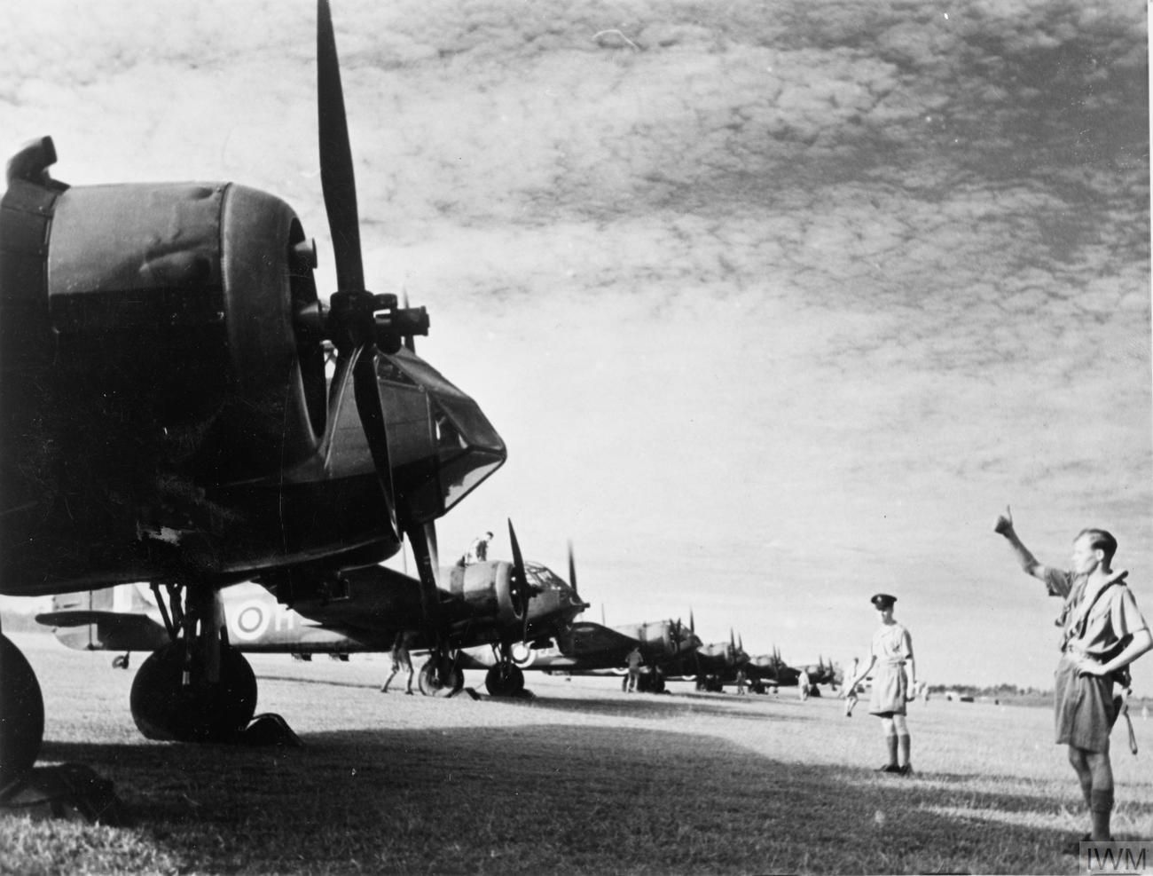 Bristol Blenheim Mark Is of No. 62 Squadron RAF lined up at Tengah Airfield, Singapore, before flying north to their new base at Alor Star, in northern Malaya.